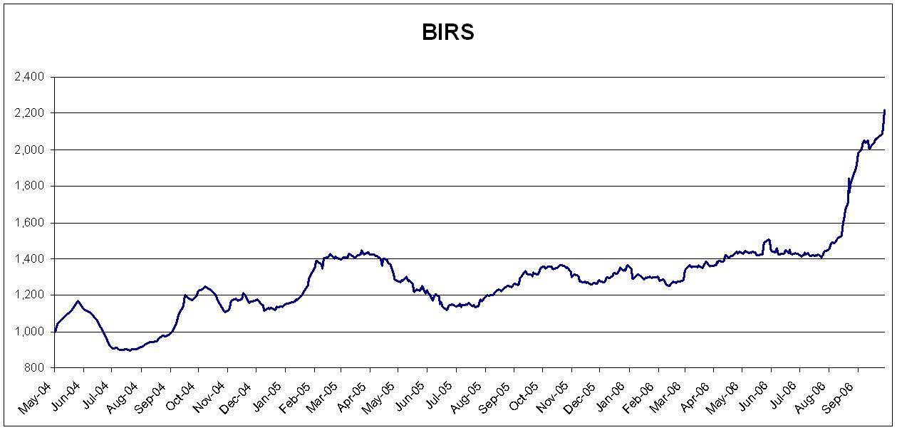 Image created and copyright held by Vladimir Ivanić.